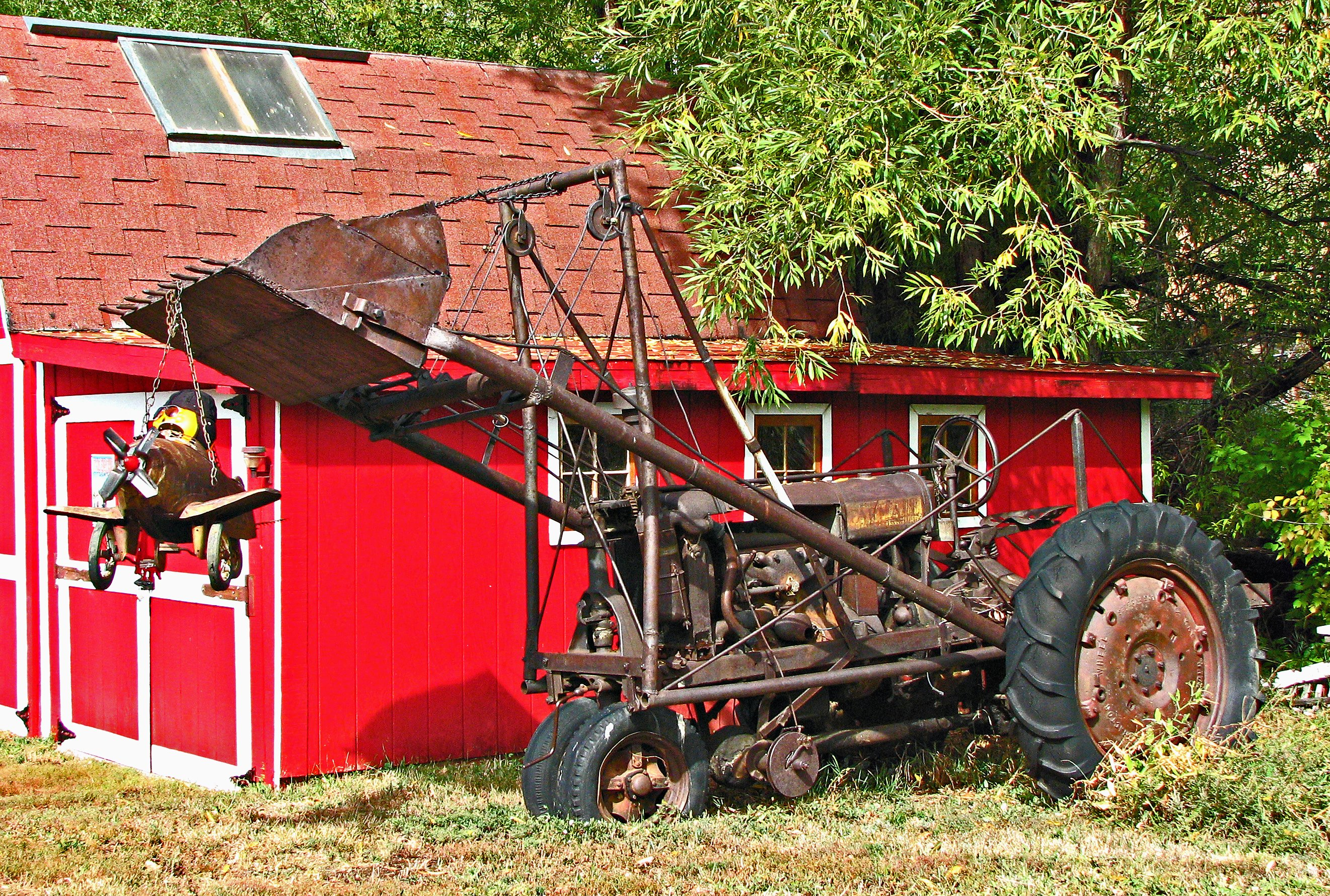 An antique Farmall F series tractor with a (presumably home-built) front-end loader in the yard next to the steam engine in Marshall, Colorado, USA. – "I think it's from the 1930's when rubber tires replaced steel. I hope an antique expert can identify ther tractor with accuracy. I'm guessing it could be an F14 or F20." Correction, it is a Farmall Regular, which came before the F series.